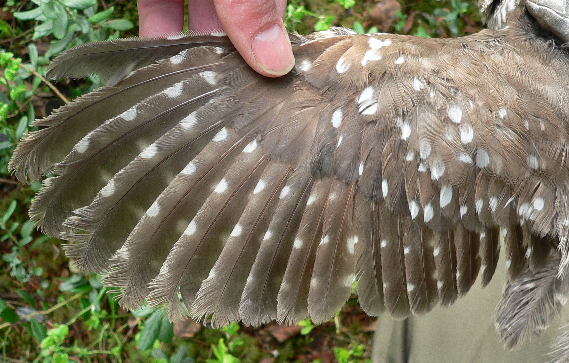 Tengmalms owl (Aegolius funereus), wing; picture taken close to Lapua, western Finland